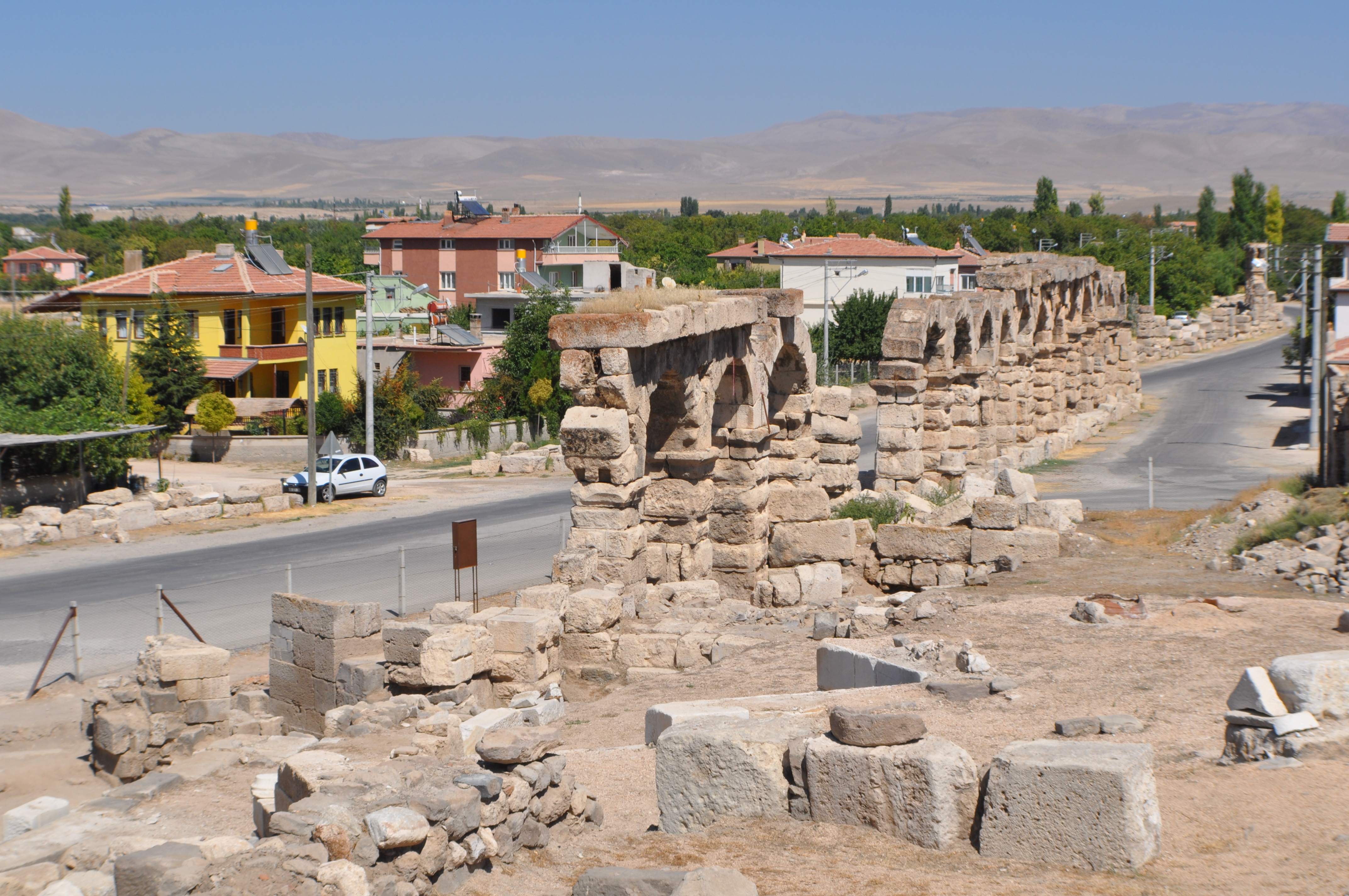 Panaromic view of Kemerhisar, Turkey